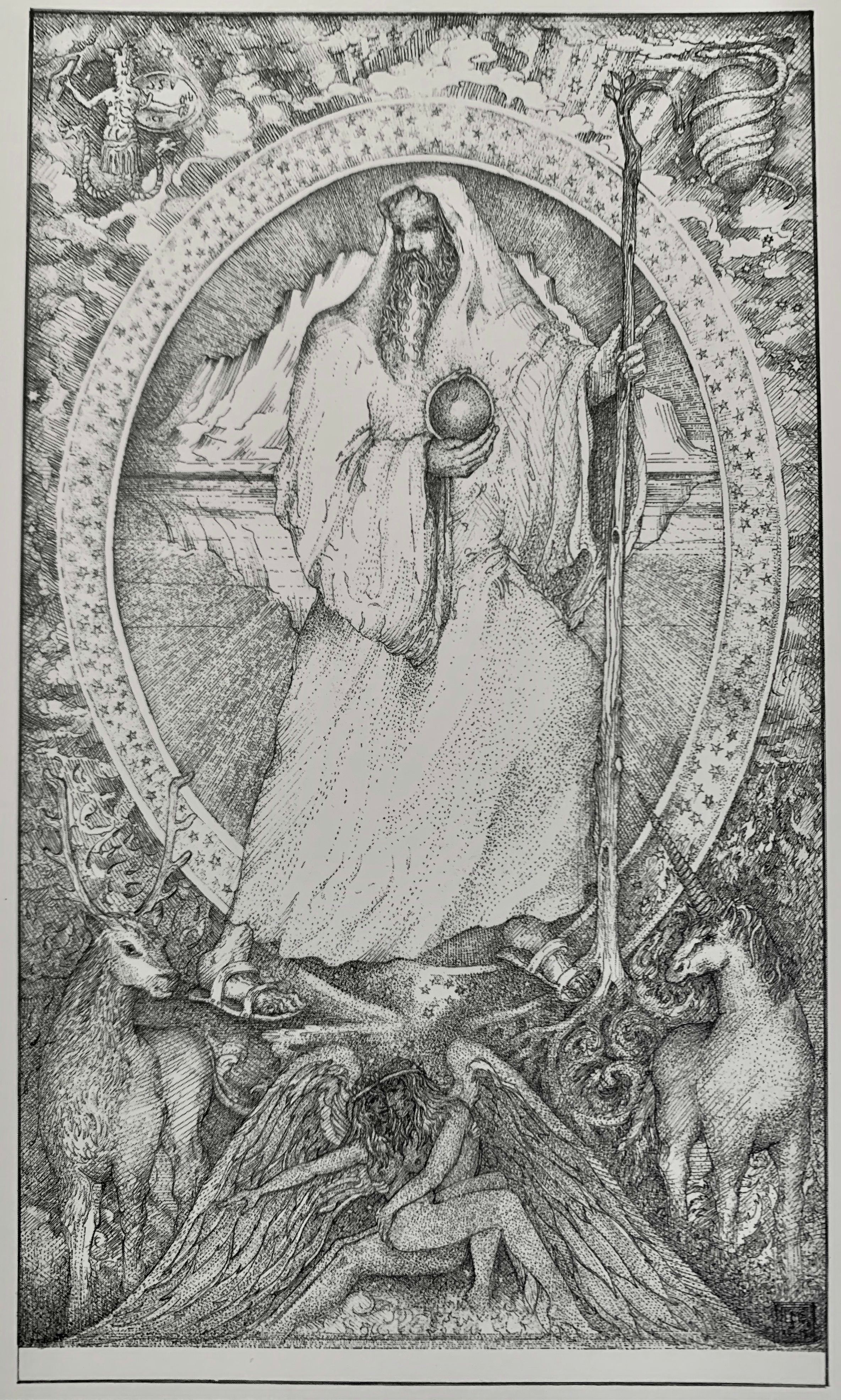 The Hermit from Leigh McCloskey's Tarot ReVisioned